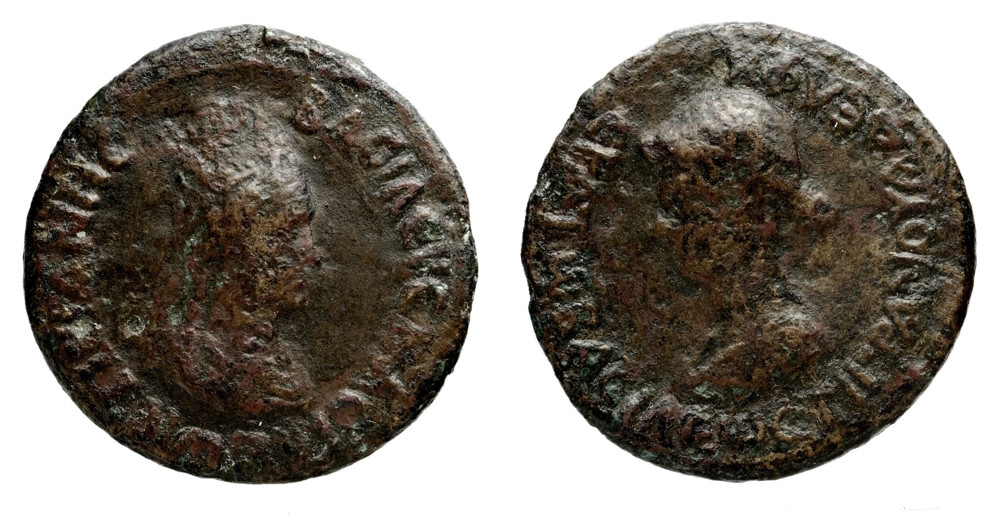 King of Armenia